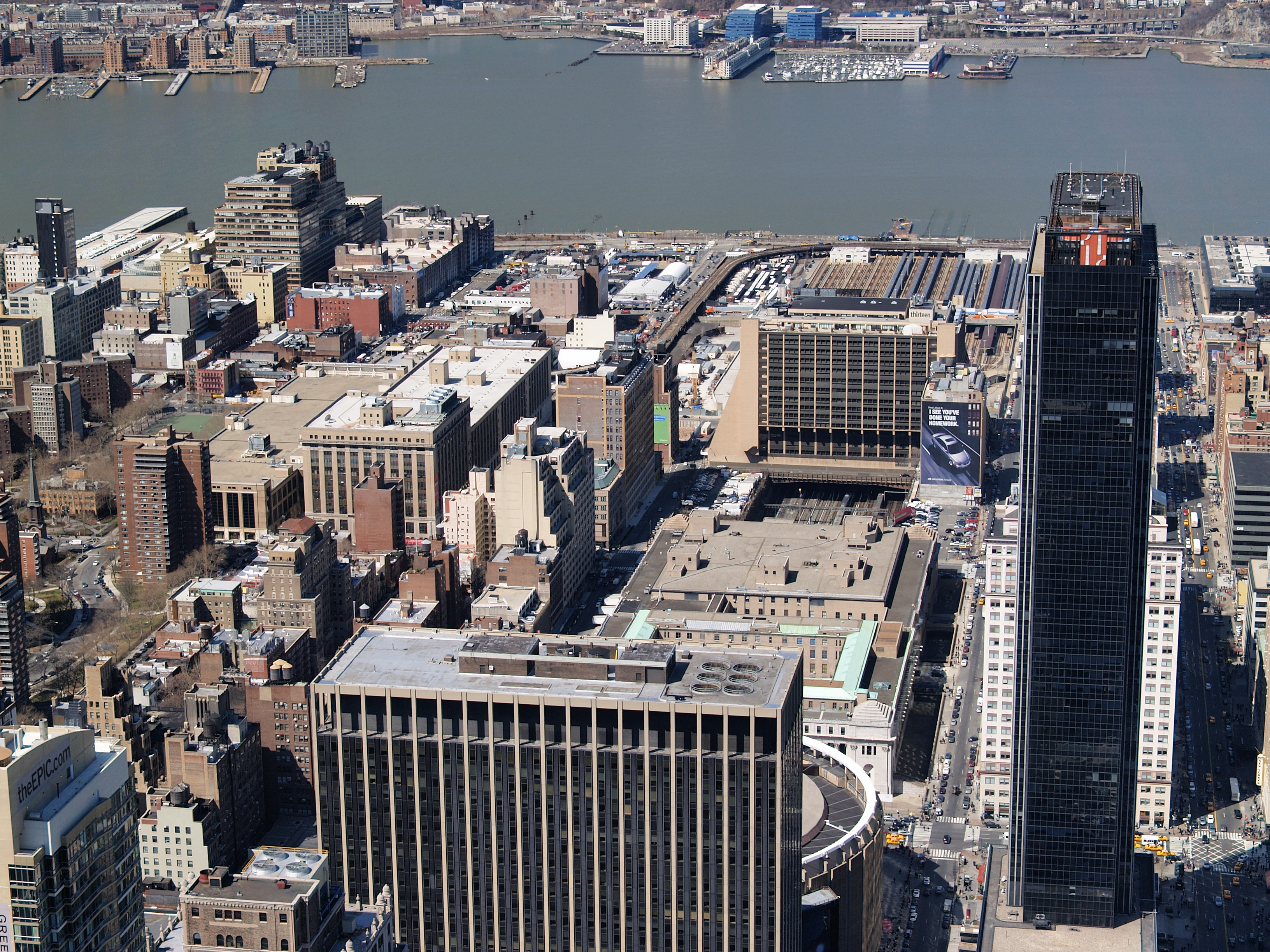 aerial view from Empire State Building west to One Penn Plaza, Pennsylvania Station, Hudson river and partly Madison Square Garden